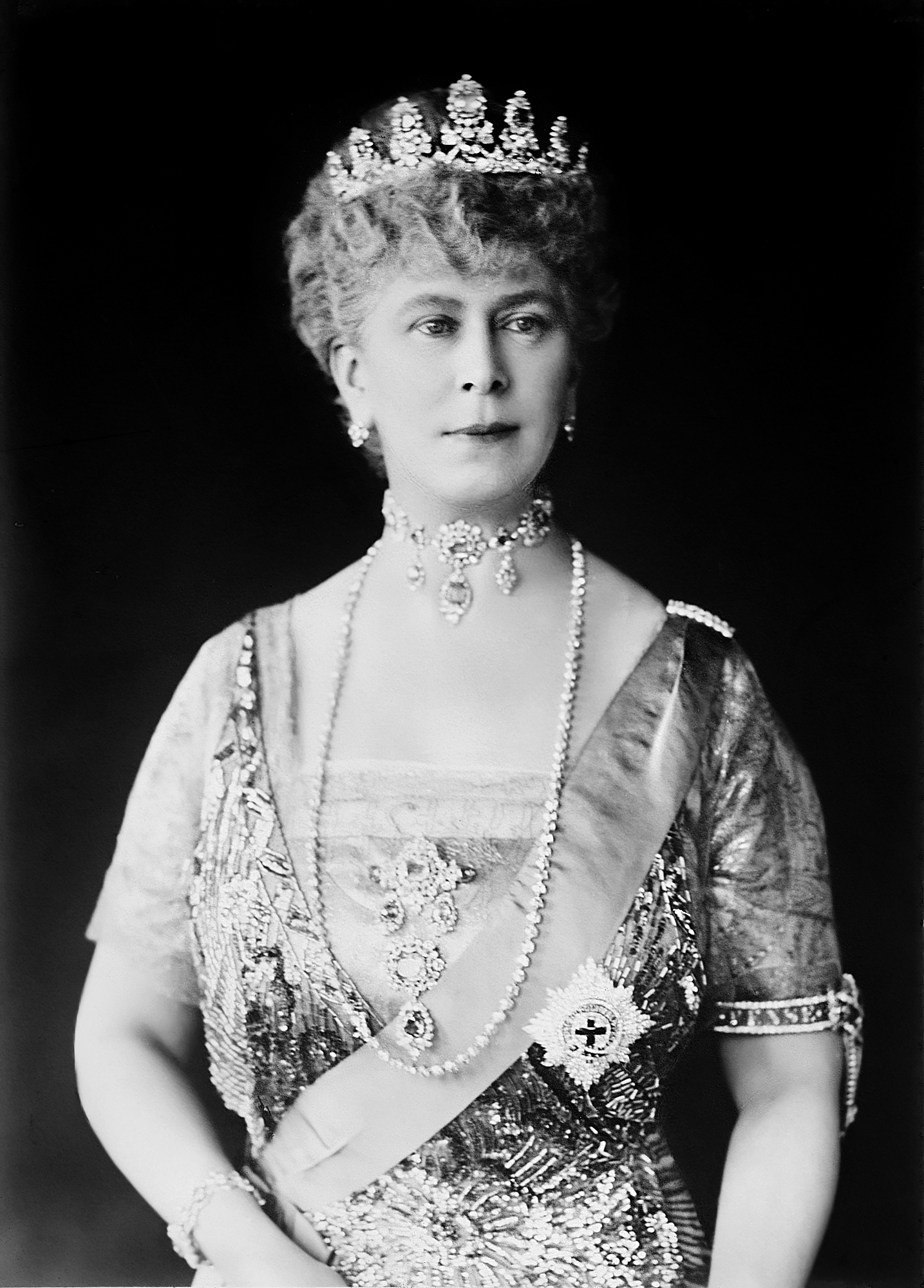 Queen Mary of the United Kingdom, also known as Mary of Teck, was the Queen Consort of George V and the Empress of India. Before her accession, she was successively Duchess of York, Duchess of Cornwall and Princess of Wales. Noted for superbly bejewelling herself for formal events, Queen Mary left a collection of jewels now considered priceless.